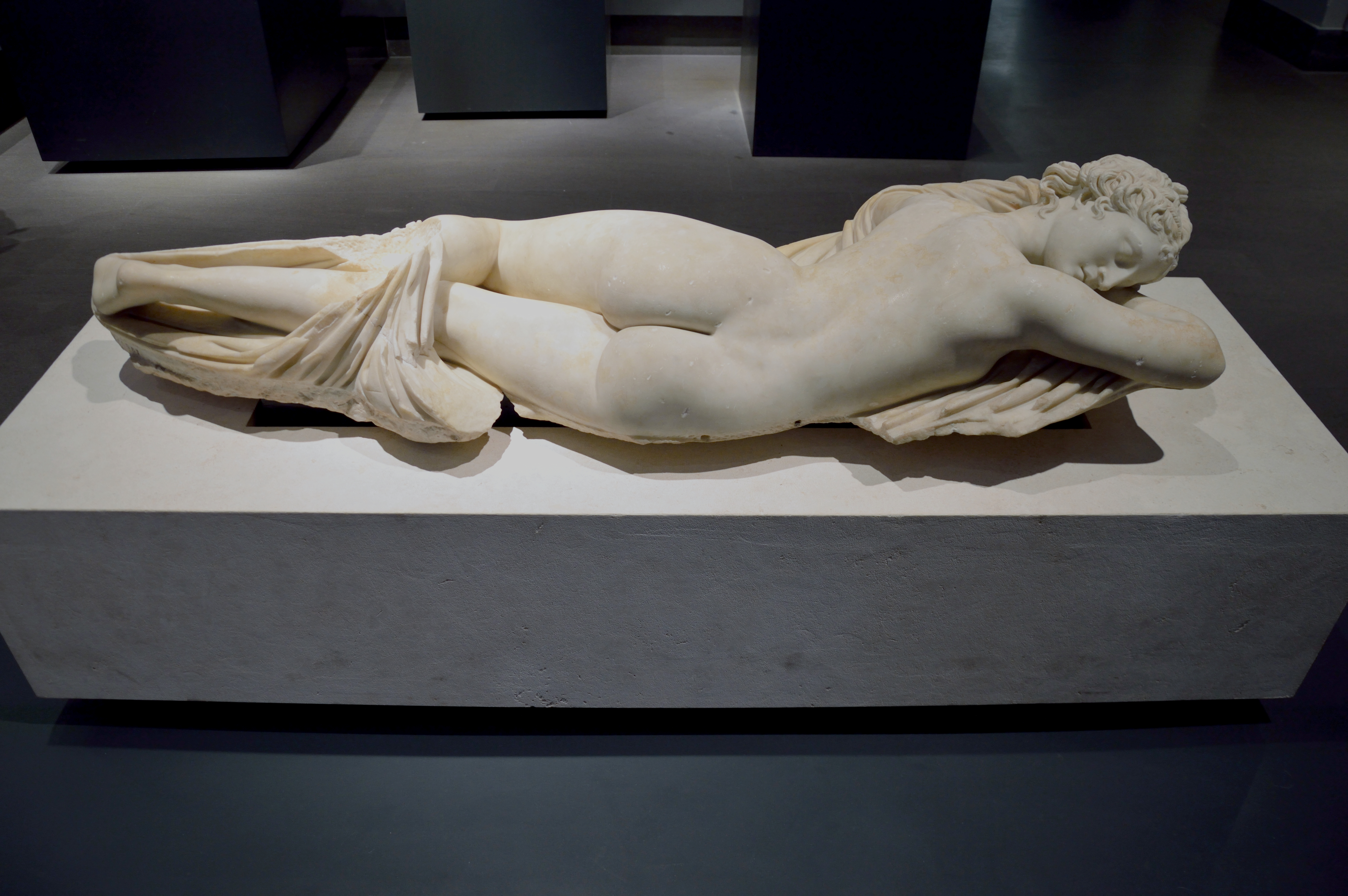 Sleeping Hermaphroditus in National Roman Museum